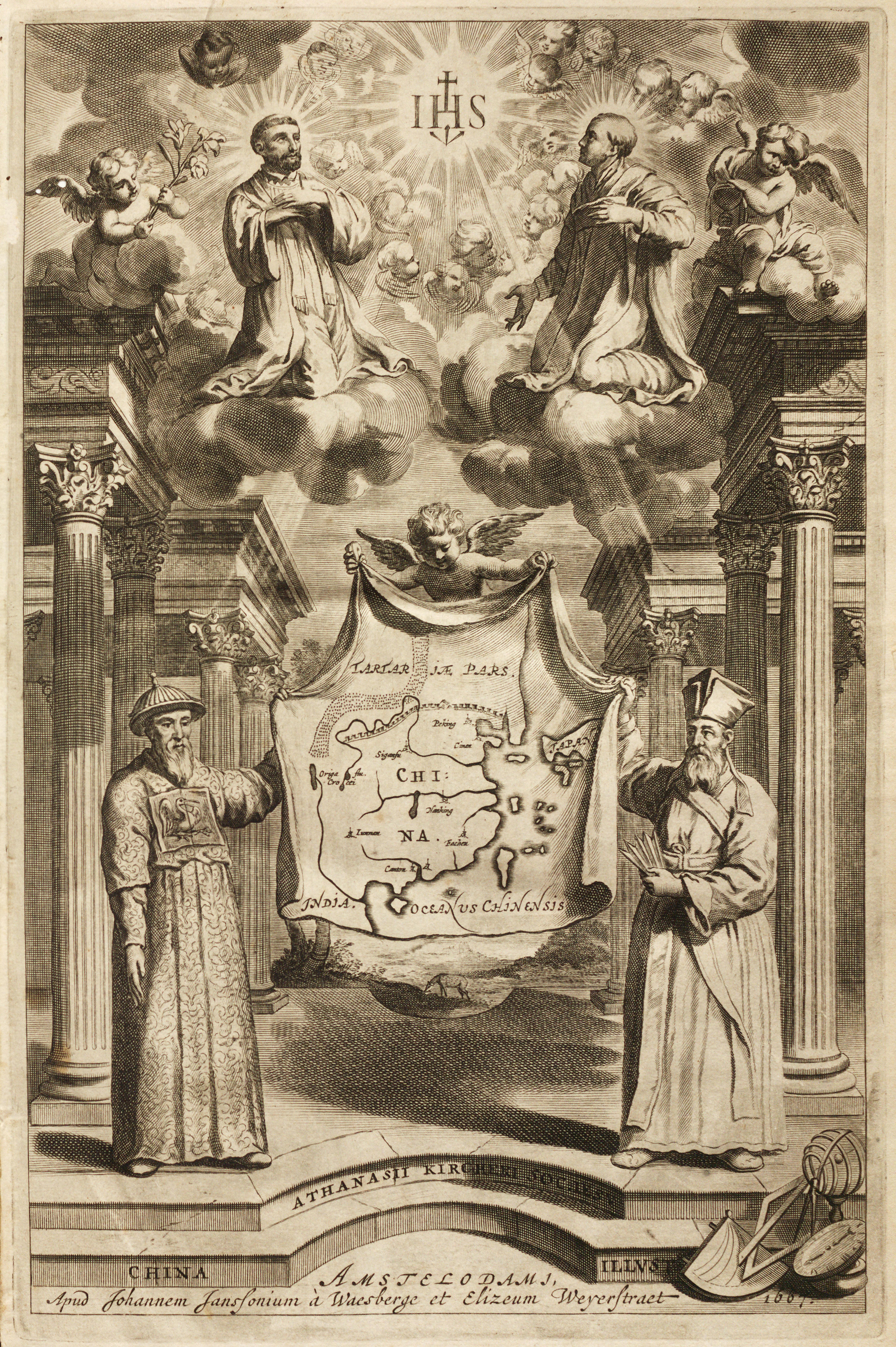 Frontispiece for Athanasius Kircher's 1667 China Illustrated, published at Amsterdam by Elisée or Elizaeus Weyerstraet and Jan Janszoon van Waesberghe, depicting Adam Schall, an angel, and Matteo Ricci displaying a map of China below SS Francis Xavier and Ignatius Loyola venerating an IHS representing Jesus Christ surrounded by angels. Note the mandarin square on Schall's robe.